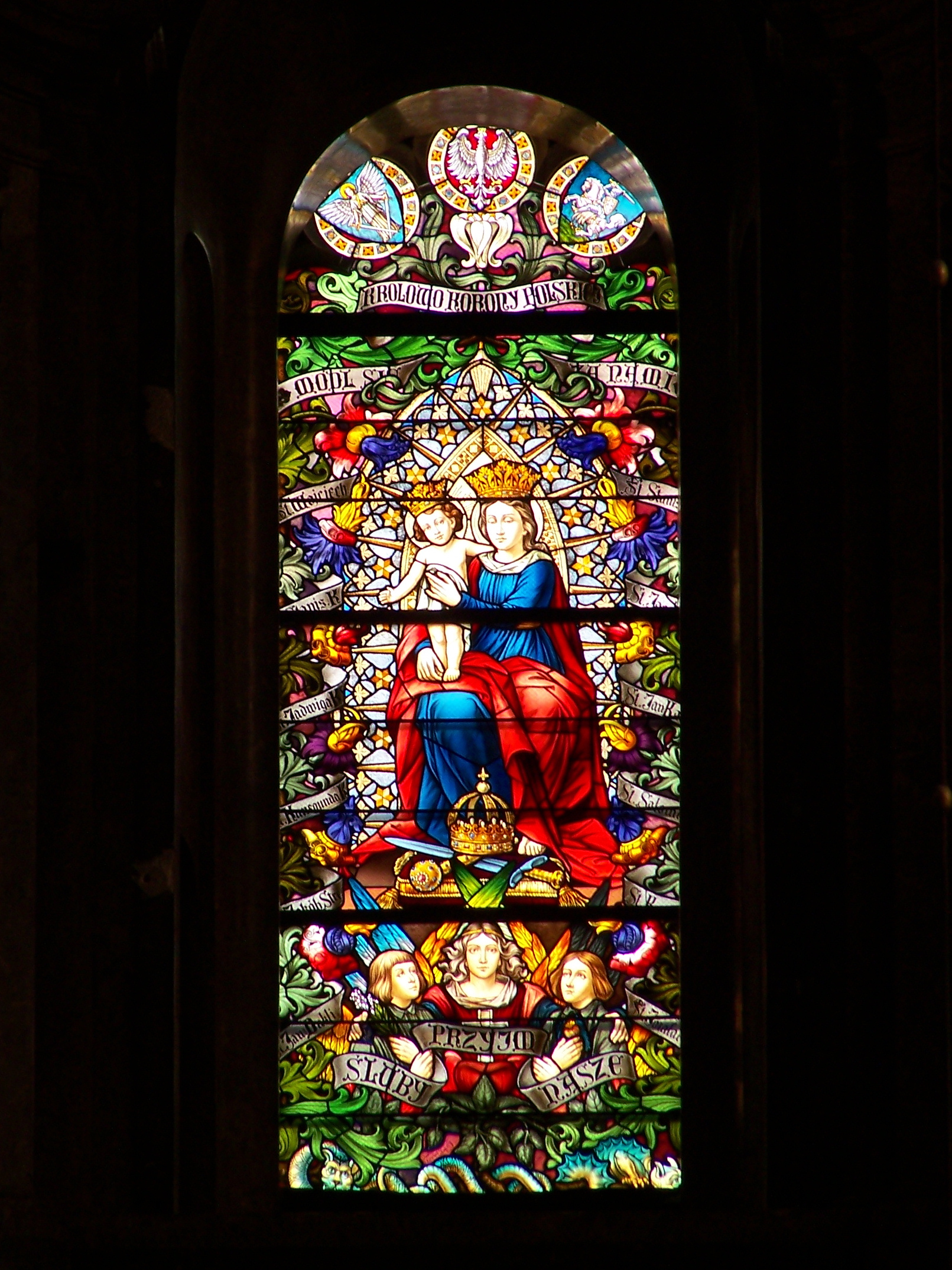 Stained glass in Roman-Catholic Catedral of St. Mary in Lviv (Ukraine).